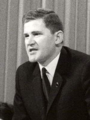 Inventarski broj: 1968 362 007